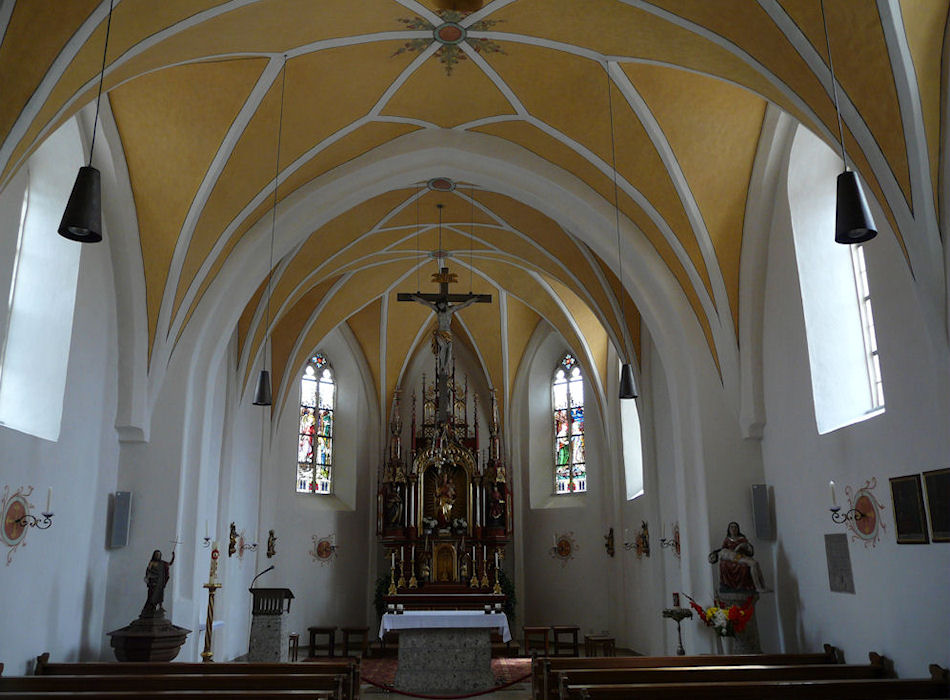 St. Thomas and St. Stephan, Seeon-Seebruck, Germany